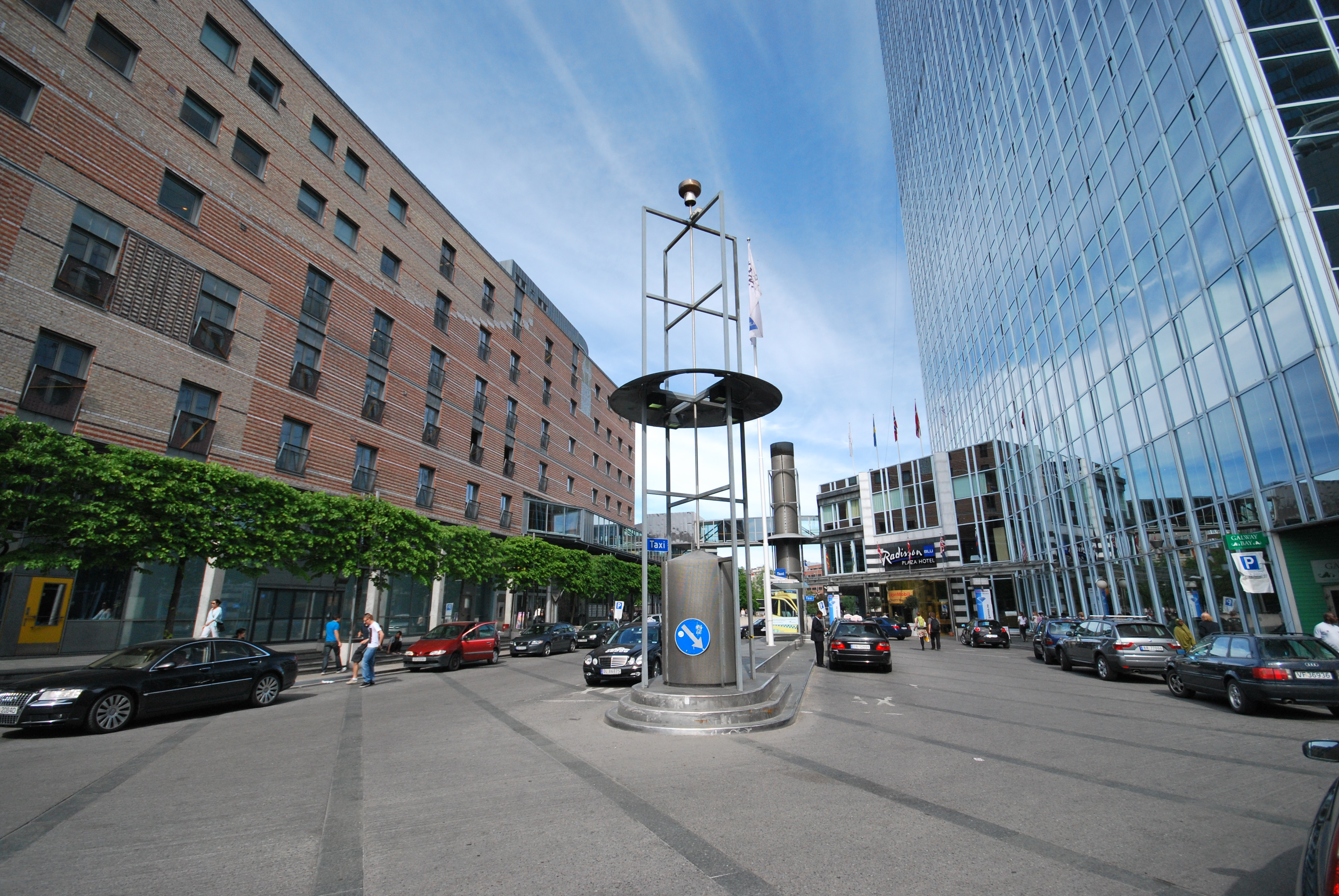 Sonja Henies plass (square), Vaterland, Oslo, seen from south (Biskop Gunnerus gate)